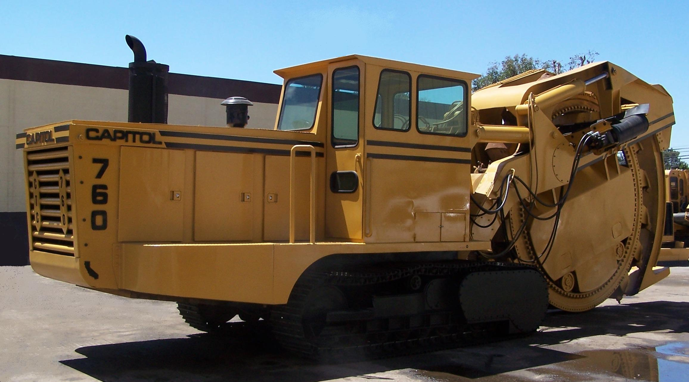 Capitol Wheel Trencher